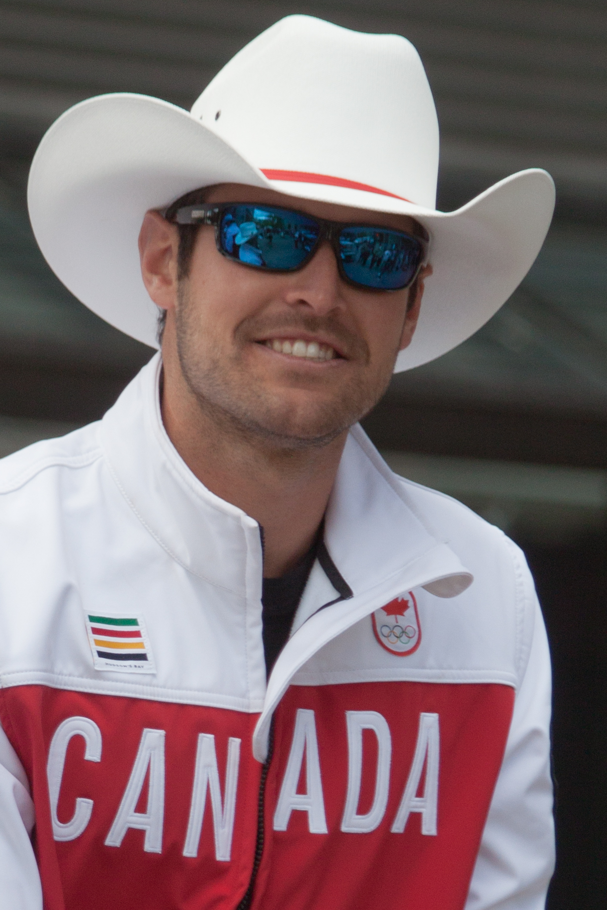 This is Olympic snowboarder Jake Holden in the Parade of Champions held in downtown Calgary, Alberta on June 6, 2014. The image has been cropped.